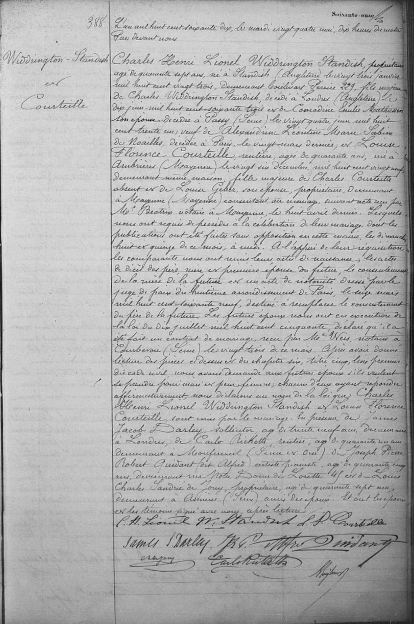 Marriage certificates of Lord Charles Henry Lionel Widdrington Standish of Standish (1823-1883), with Louise Florence Courteille (1829-1916) in Paris in the 17th arrondissement, May 24, 1870. Just after his widowhood with Sabine de Noailles (1819-1870), Lionel Standish formalizes his union with his mistress, Louise Courteille. Four illegitimate children were born outside marriage : Georges Albert Charles Courteille (1851), Lionel Charles Edmond Widdrington Courteille (1860), Marie Madeleine Élisa Widdrington Courteille (1863) and Louise Euphémie Marie Courteille (1869).